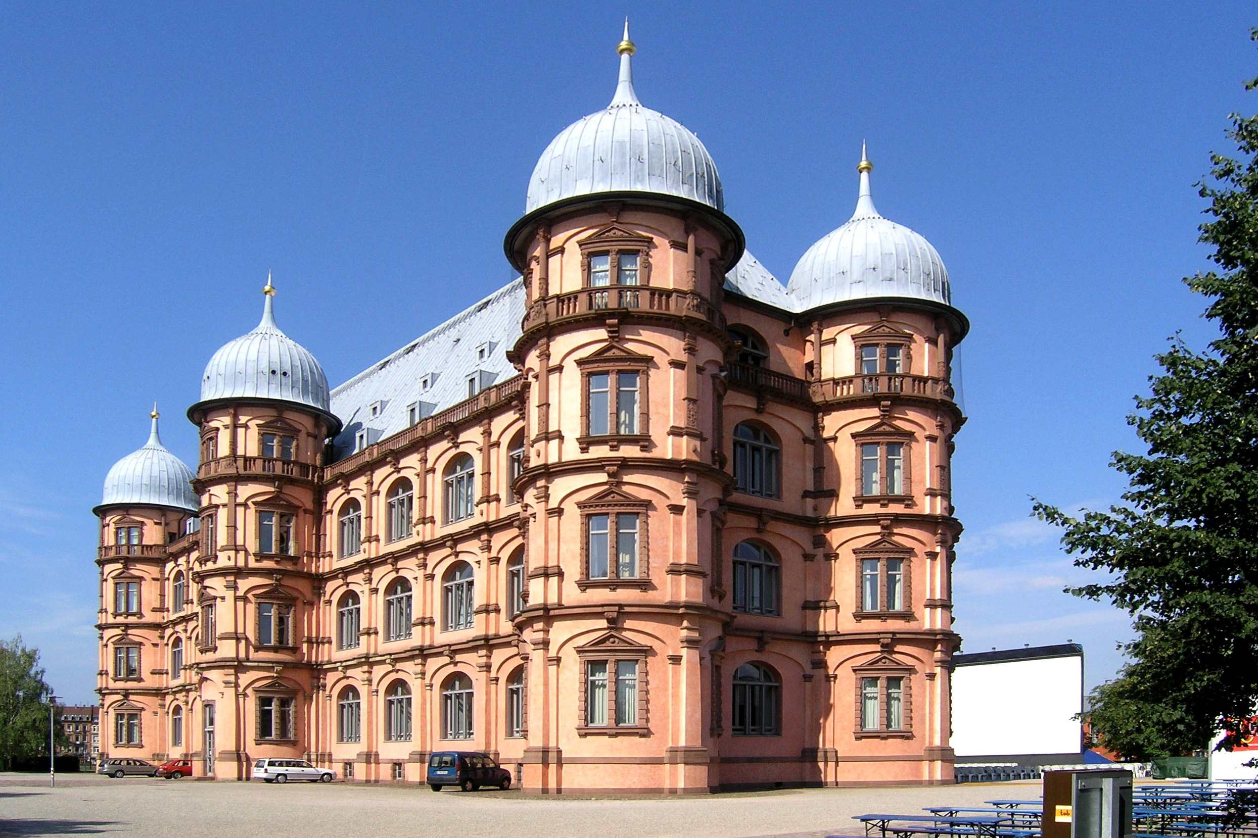 Open air cimena at Gottesau castle, Karlsruhe, Germany.